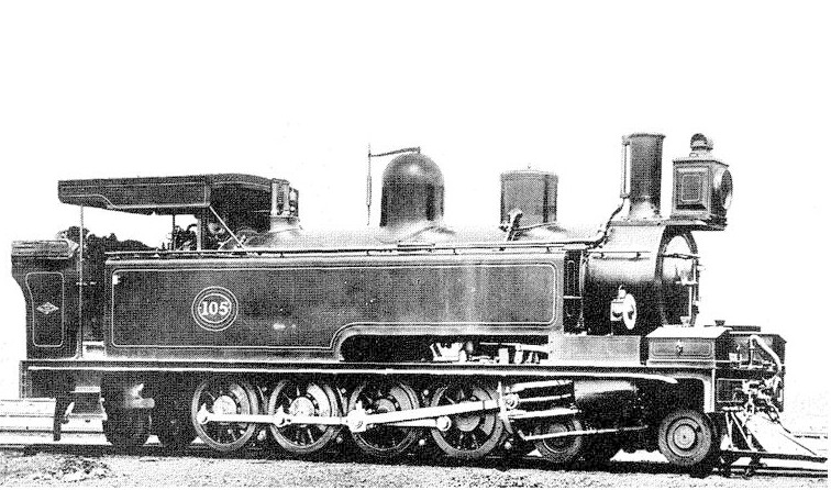 Natal Government Railways Class A no. 105 (4-8-2T), later SAR no. 151Builder's number: Dübs 3481/1897